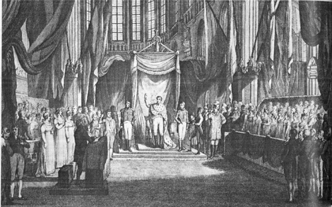 Inauguration of William I of the Netherlands, 30 March 1814.